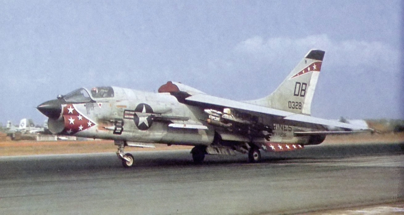 A Vought F-8E Crusader (BuNo 150328) of U.S. Marine Corps all weather fighter squadron VMF(AW)-235 at Da Nang, South Vietnam, in April 1966.